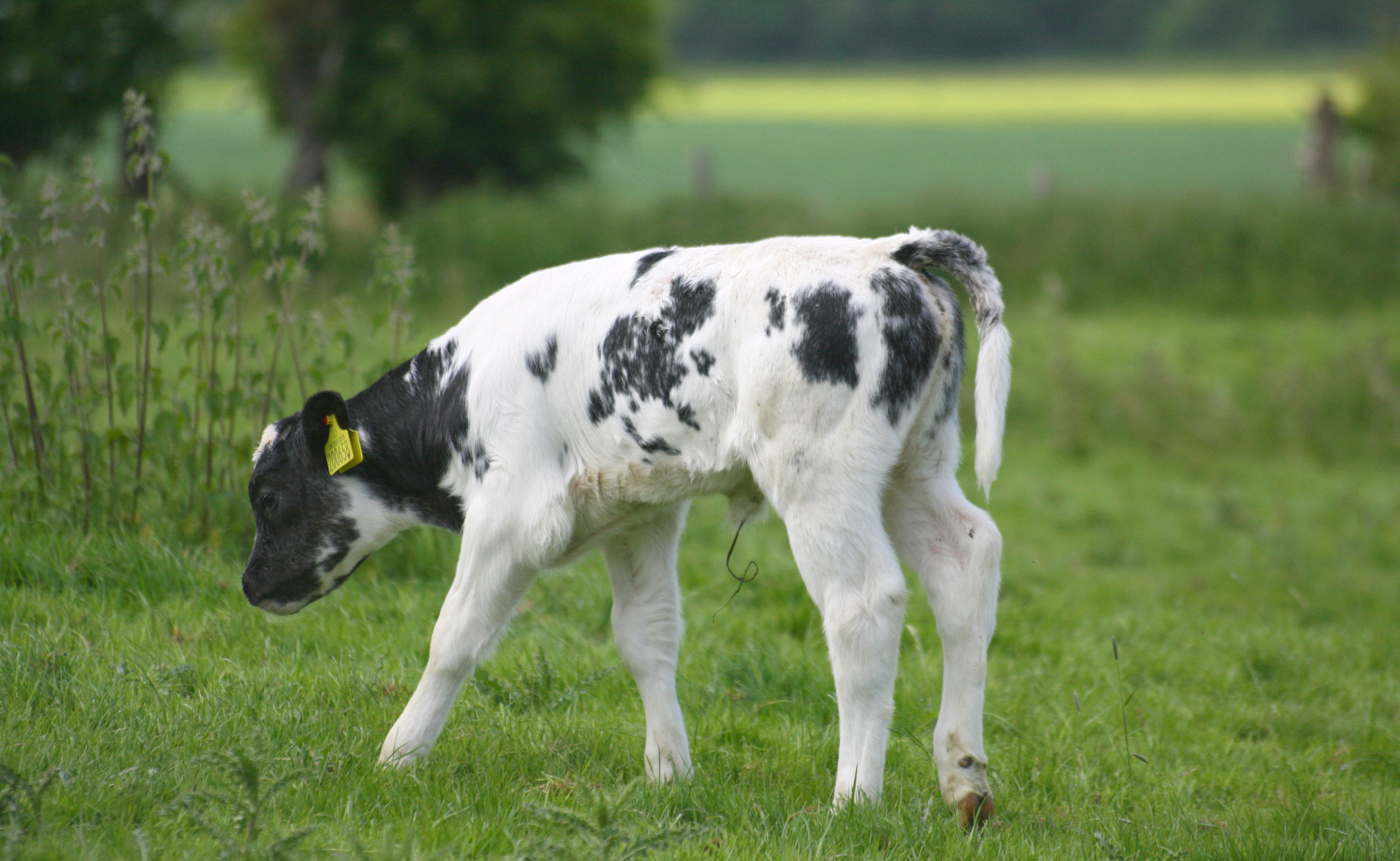 Calf, Stodmarsh, Kent, England